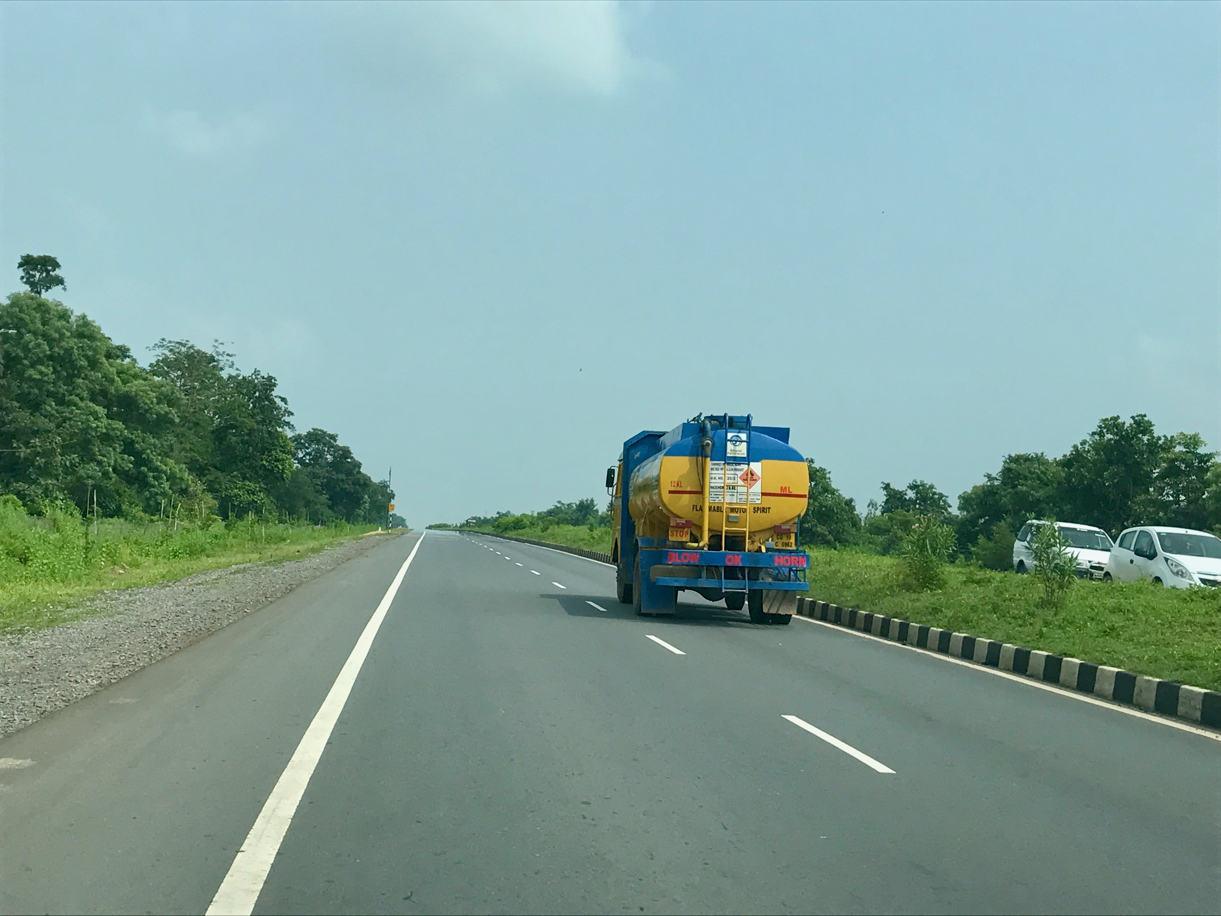 The road and highway network of India